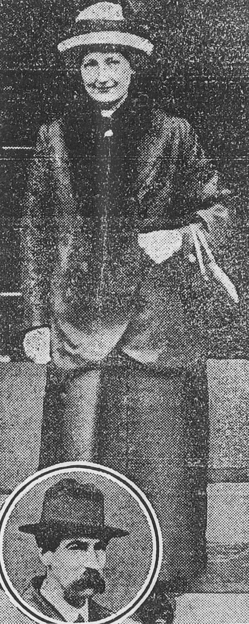 Newspaper cutting of the marriage of Ethel Carnie Holdsworth in 1915